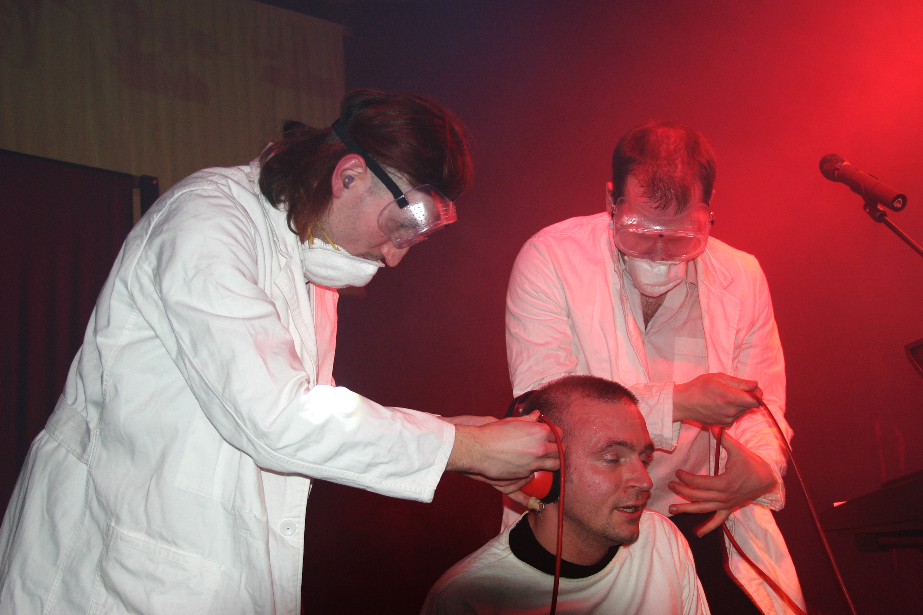 German rhythm'n'noise band "KiEw" live in Kassel, Germany.